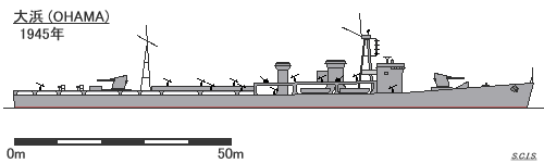 Figure of OHAMA 1945, target ship of the Imperial Japanese Navy.